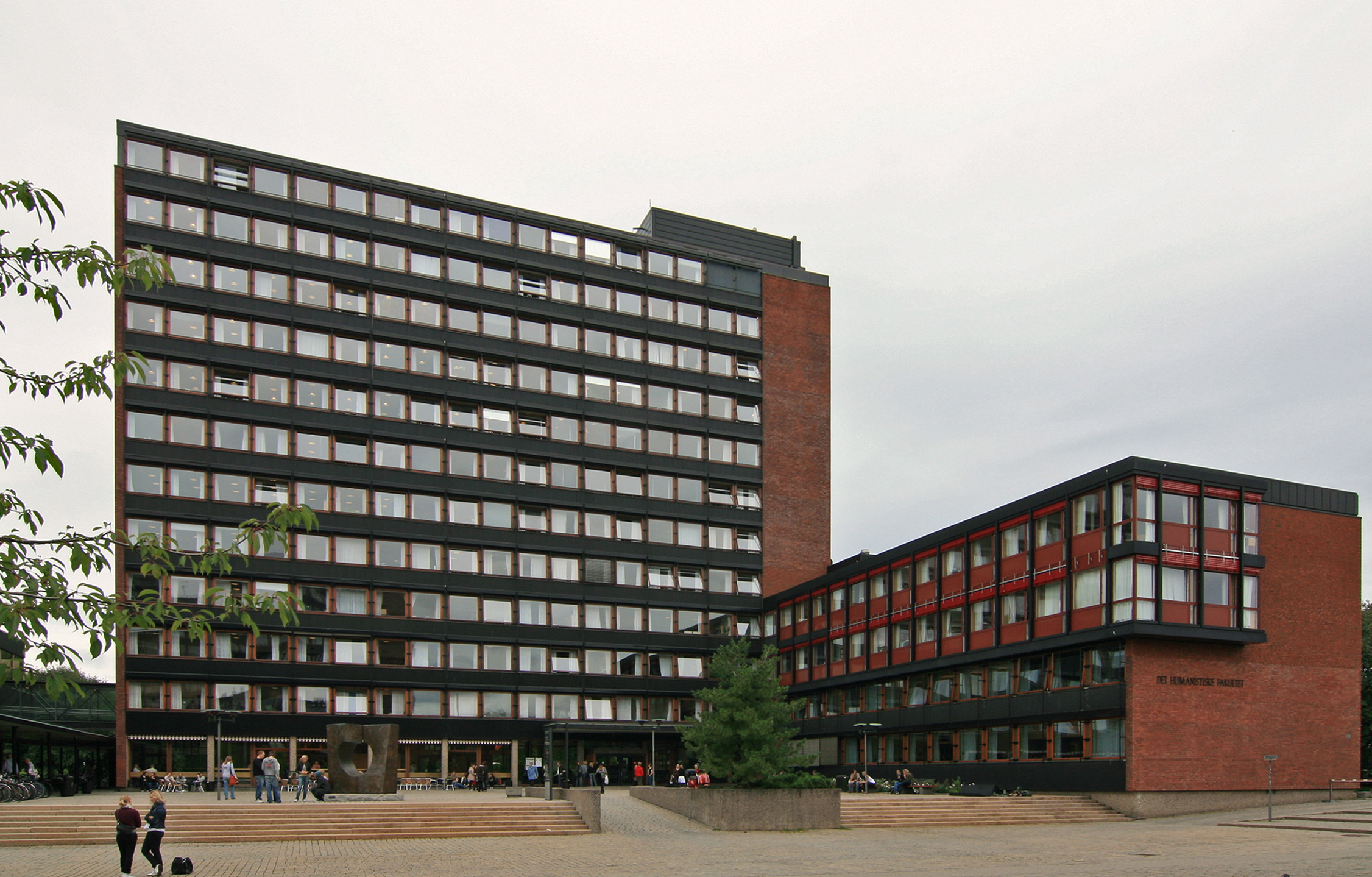 Nils Treschow House, University of Oslo. Built 1962; architect Leif Olav Moen.